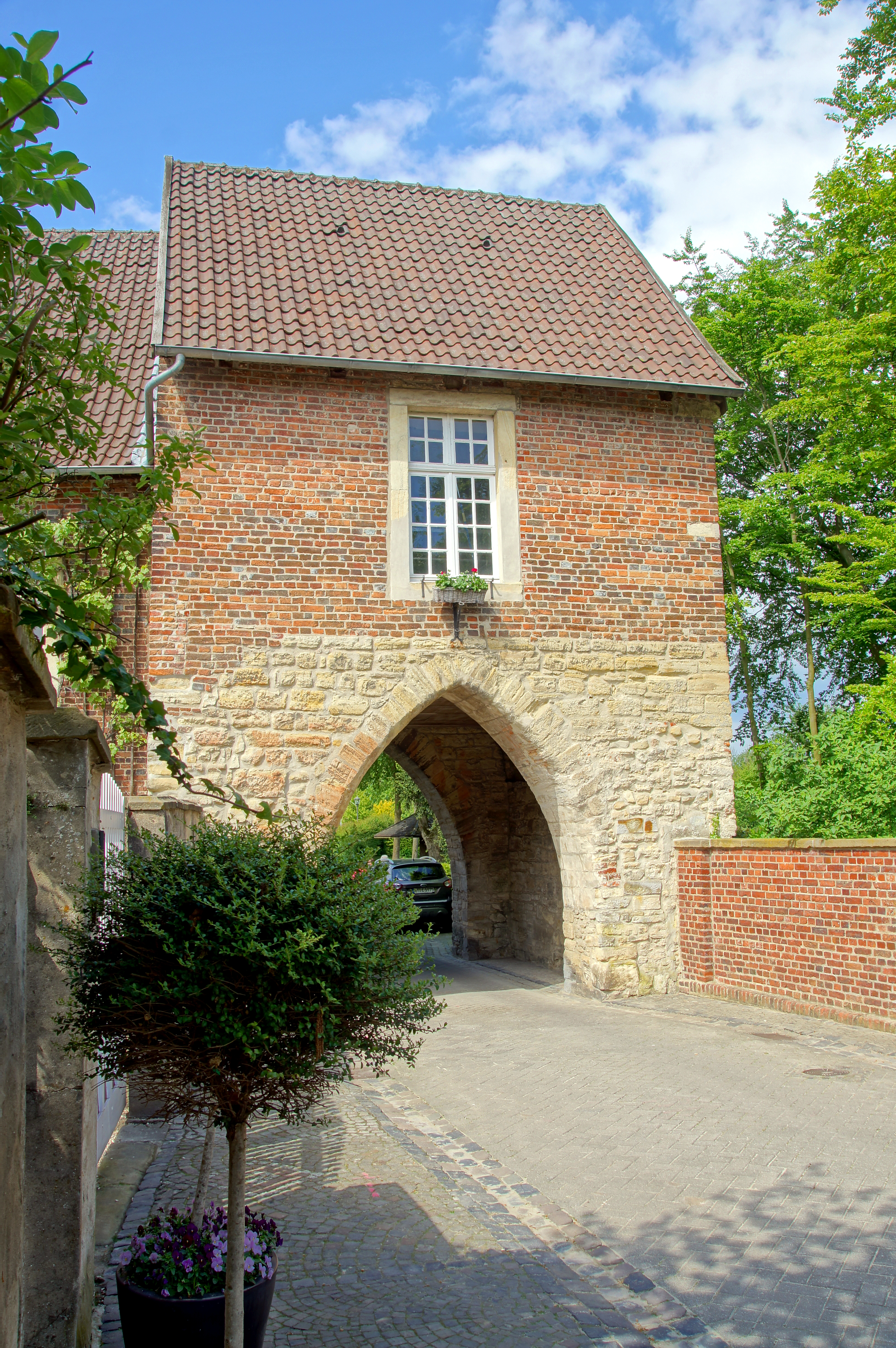 Medival city gate in Horstmar, district of Steinfurt, North Rhine-Westphalia, Germany. This is a photograph of an architectural monument. /07